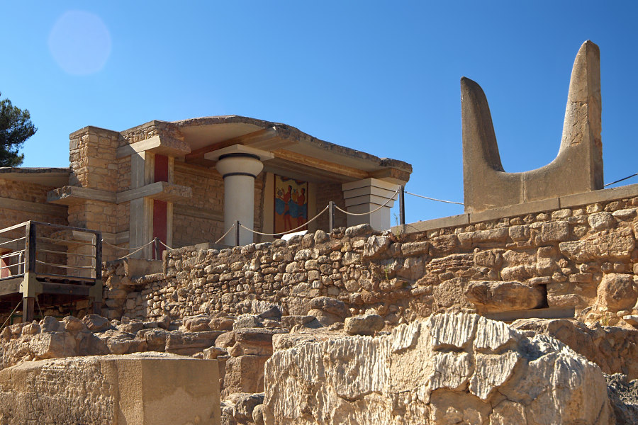 Minoan Palace at Knossos. Horns of Consecration (in the South Propylaeum)